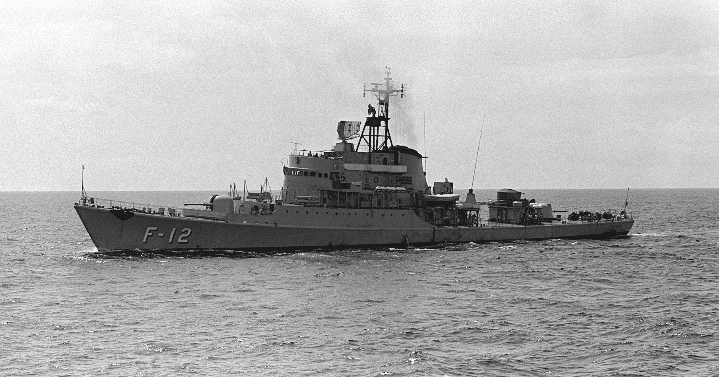 A port beam view of the Venezuelan frigate Genereal José Trinidad Moran (F-12) during exercise Unitas XX.